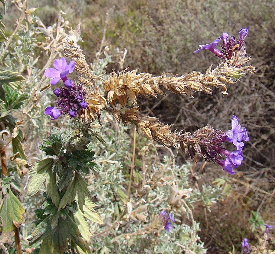 A hairy species from the Cordillera Negra of Peru. In context at